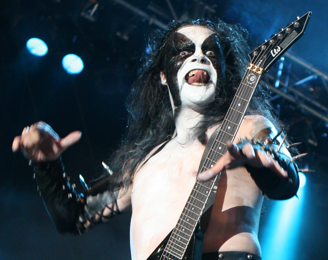 IMMORTAL shot at Wacken Open Air 2008. Photograph by Caroline Lauder of LOUDER IMAGES